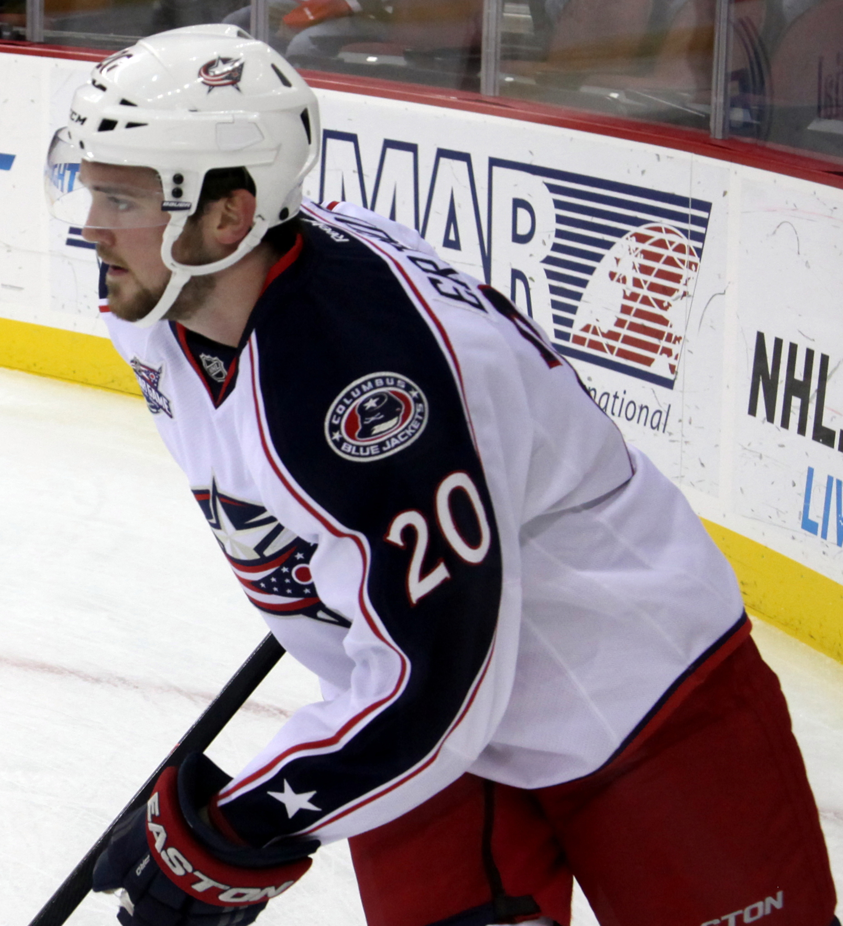 Tim Erixon on November 2014.